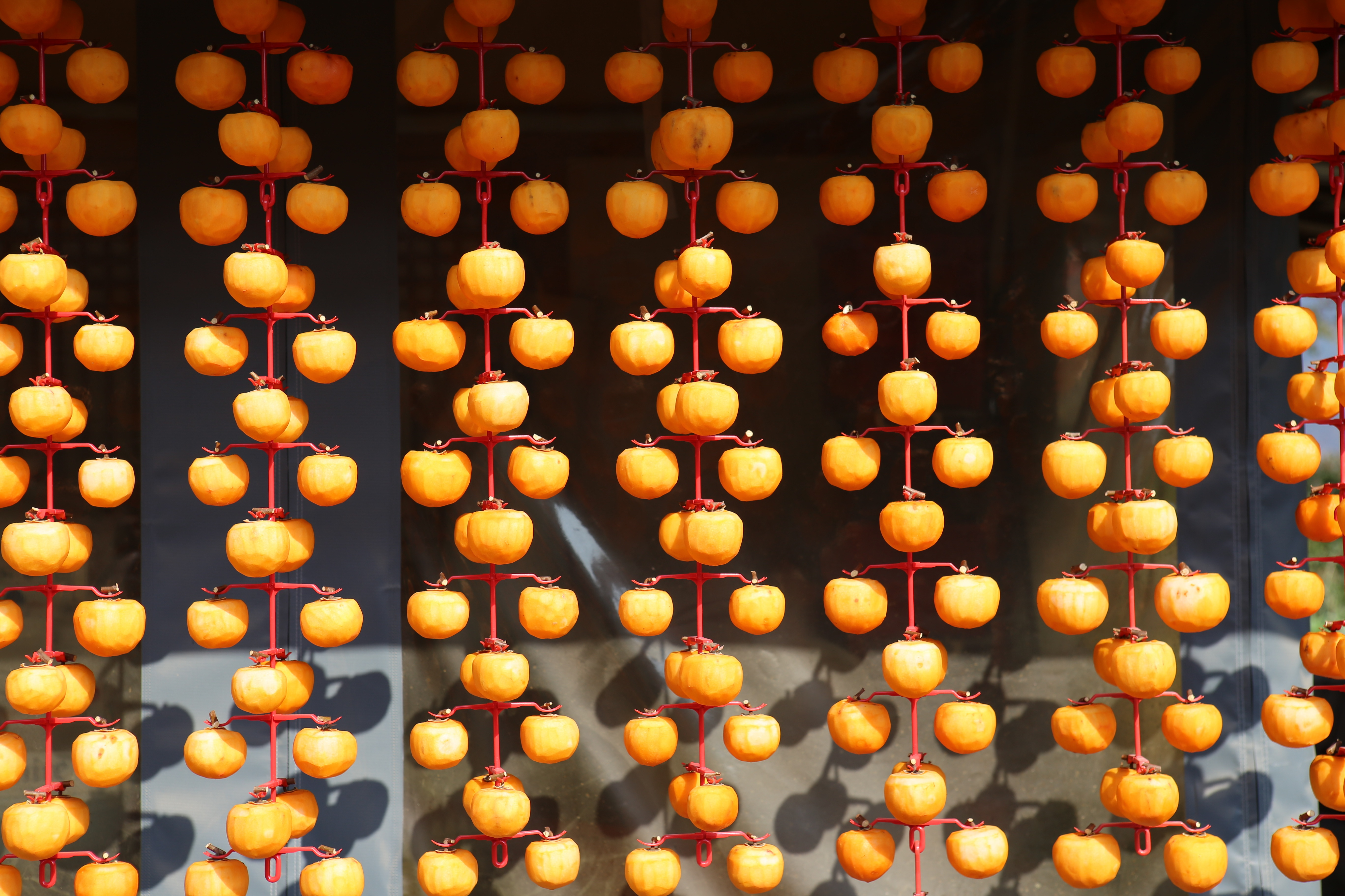 Gotgam (dried persimmon) drying in Hahoe Folk Village, Andong